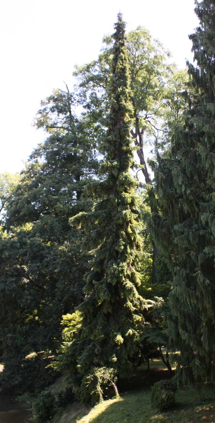 Lednice na Moravě, Czech republic, english park